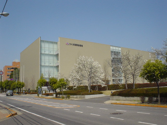 EPOCHAL Tsukuba (Tsukuba International Convention Center), at Tsukuba, Ibaraki, Japan